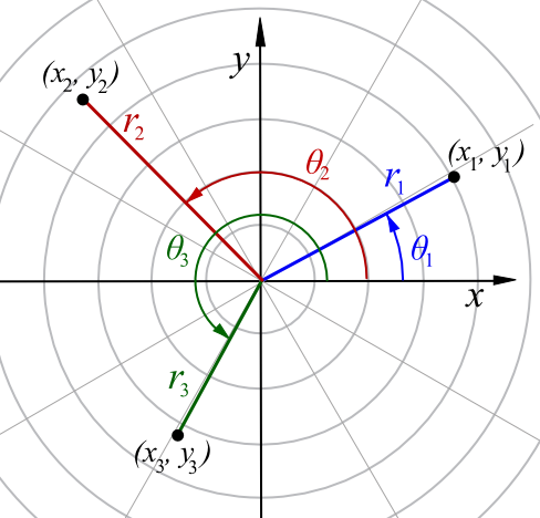 polar coordinate system